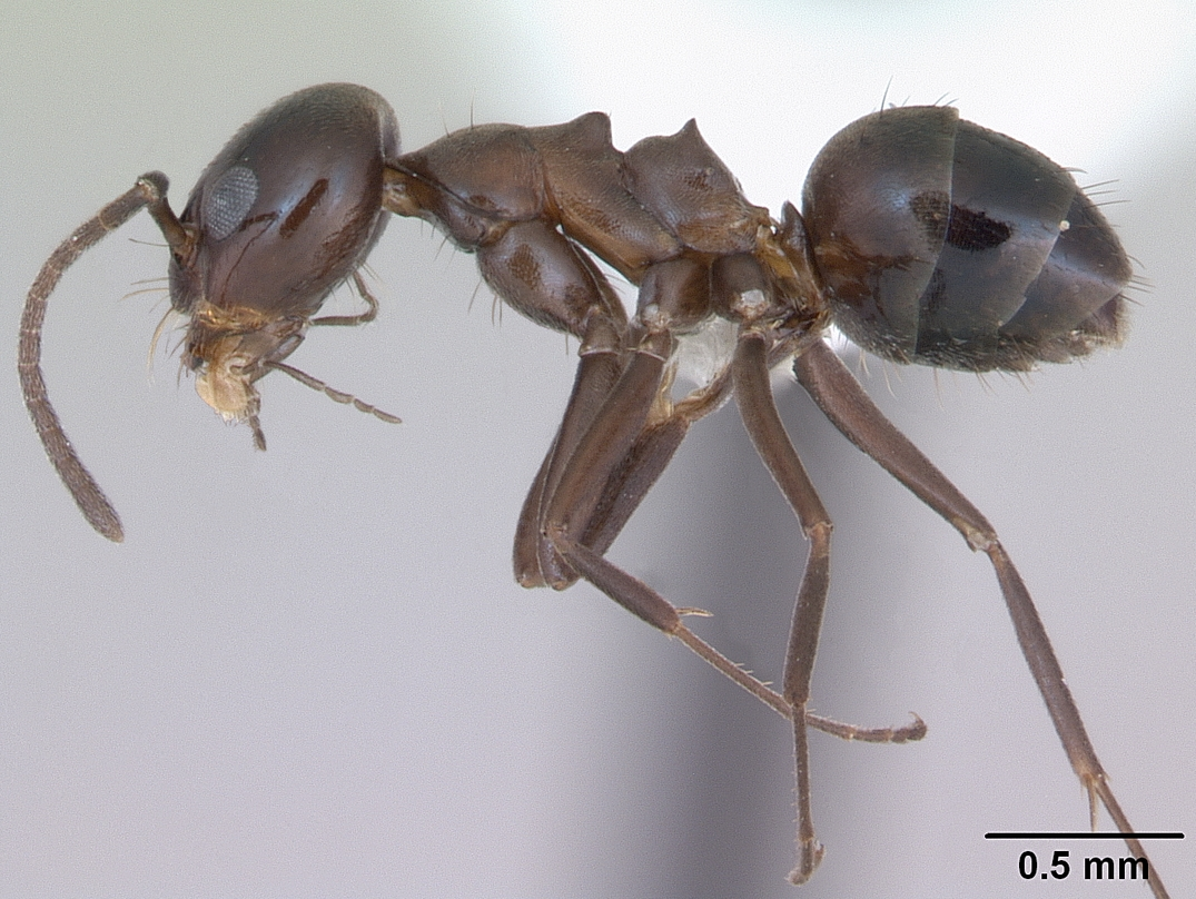 Profile view of ant Dorymyrmex bituber specimen casent0173842.